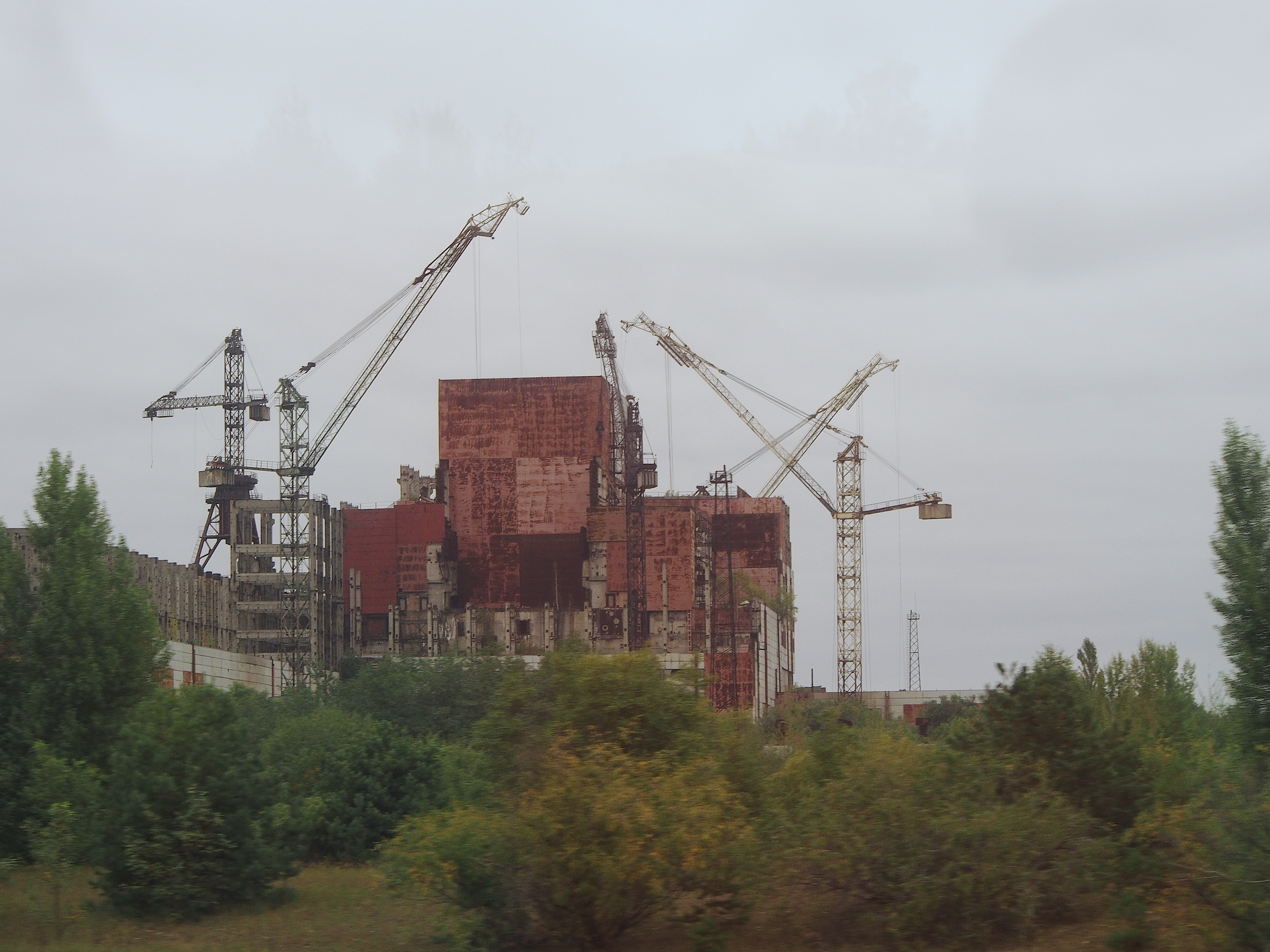 This would have been an advanced RBMK 1500 reactor.